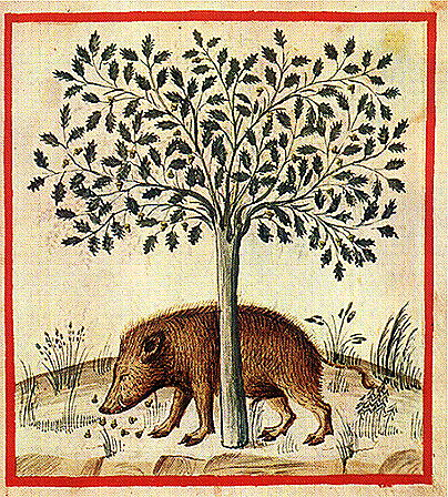 Acorns (Glandes) Nature: Cold in the second degree, dry in the third. Optimum: Those that are fresh and large. Usefulness: They help rentention. Dangers: They prevent menstration. Neutralization of the Dangers: By eating them roasted and with sugar. From the Tacuinum of Rouen